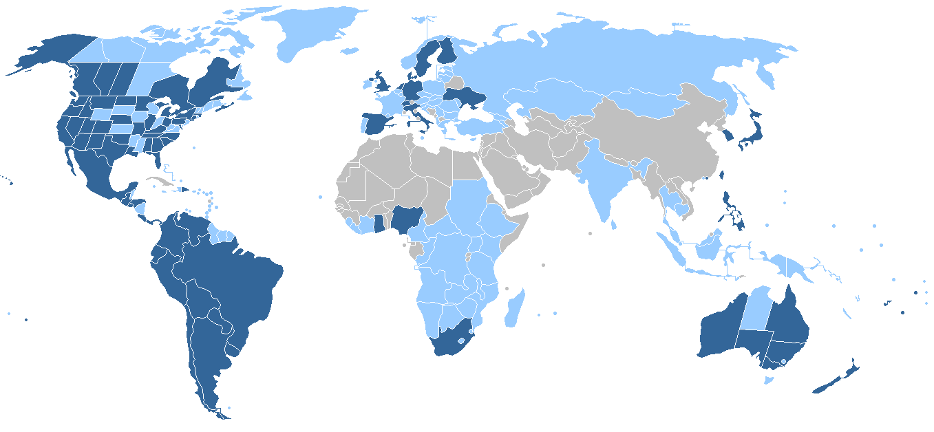 Countries and territories with at least one LDS temple Countries and territories with no LDS temple, but with organized congregations and missionaries Countries and territories with no official LDS presence Countries and territories in which the LDS Church has an official presence. "Official presence" is defined as the existence of an LDS temple, the existence of formally organized LDS congregations, or the presence of full-time LDS missionaries. Non-sovereign territories without church presence are not indicated.